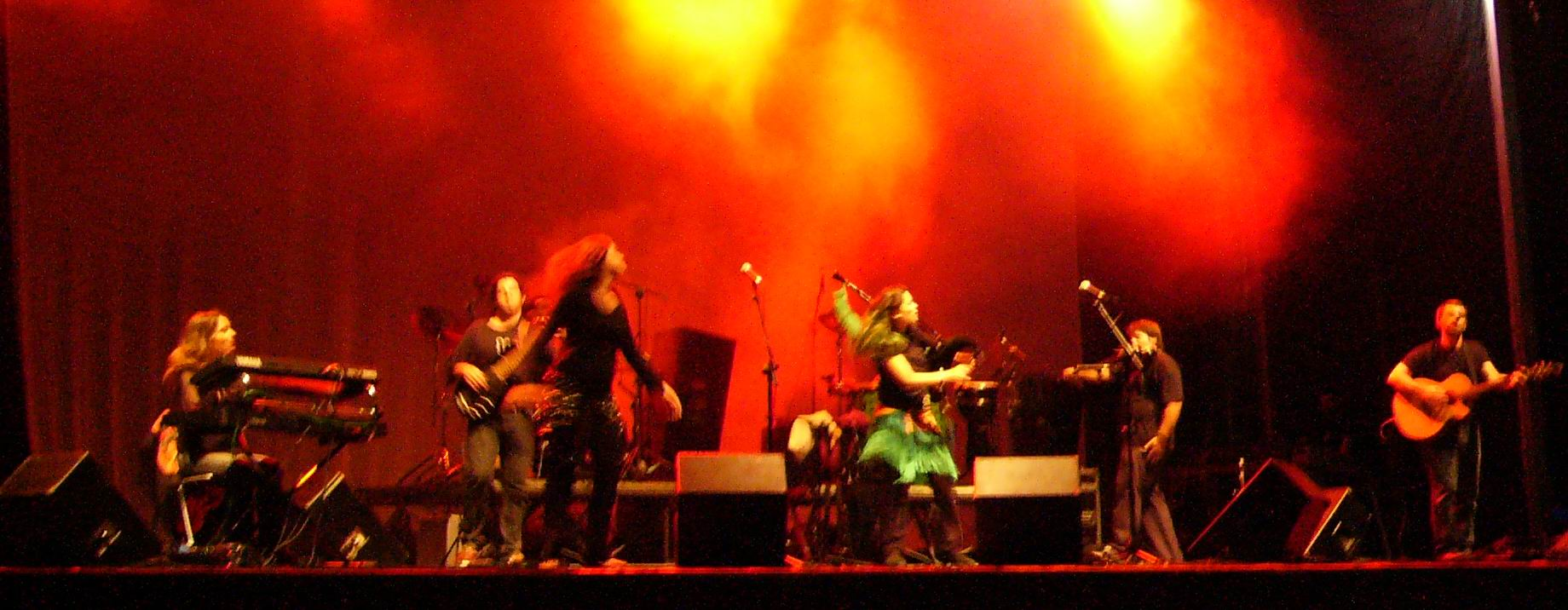 Juan Veneventura